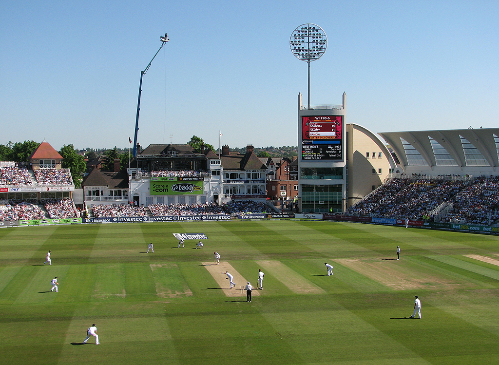 Trent Bridge Cricket Ground: the first day of the 2012 England v West Indies Test Match. With the score 190-6, Tim Bresnan bowls to Marlon Samuels, then on 66 of an eventual 107 not out. Having been 136-6, West Indies ended the day on 304-6 thanks to an unbroken partnership of 168 between Samuels and his captain, Darren Sammy (88 not out). A big crowd enjoyed brilliant sunshine, some good England bowling in the first half of the day and a smashing West Indian fight back.